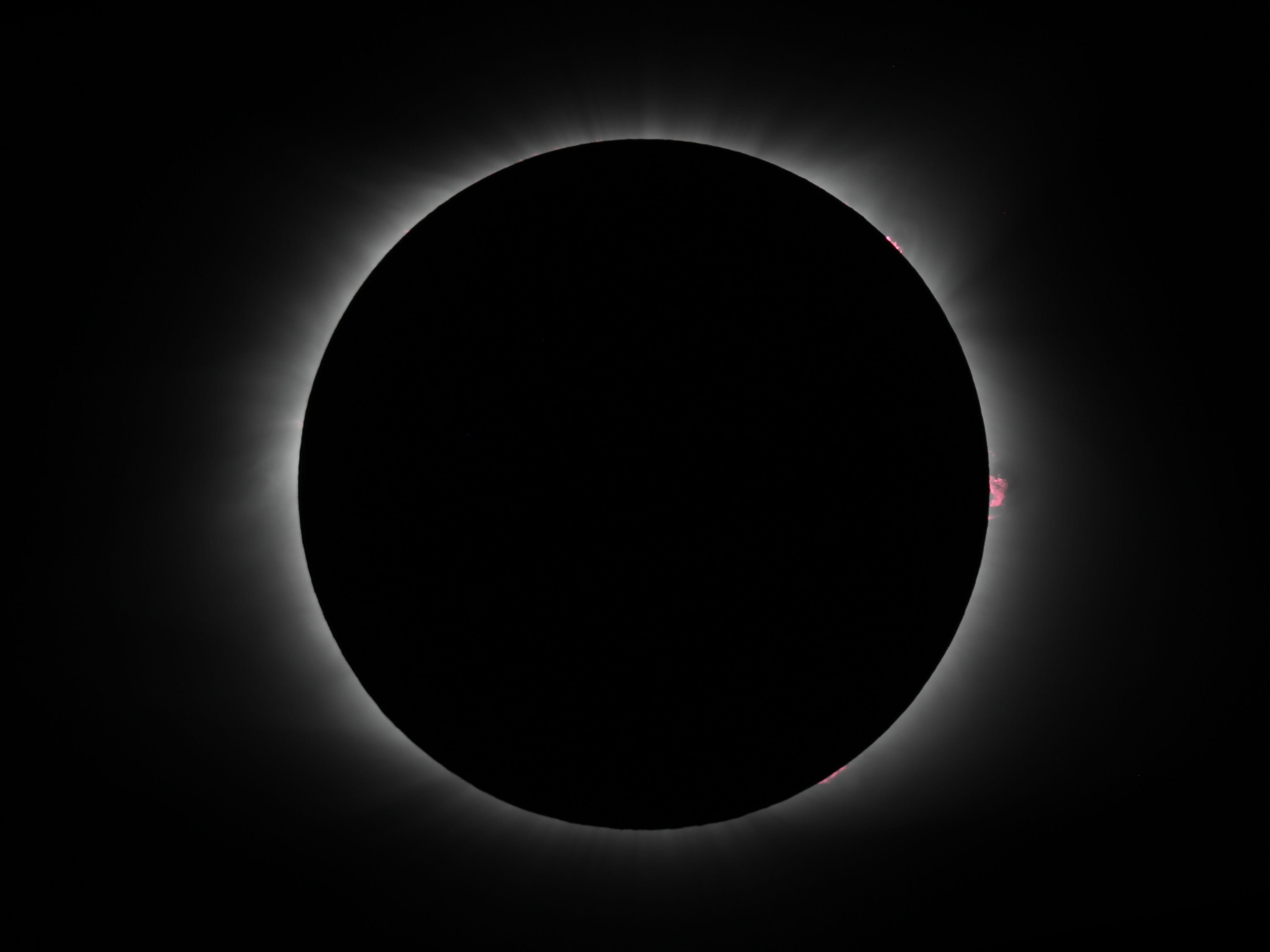 The total solar eclipse of August 21, showing the corona and prominences.